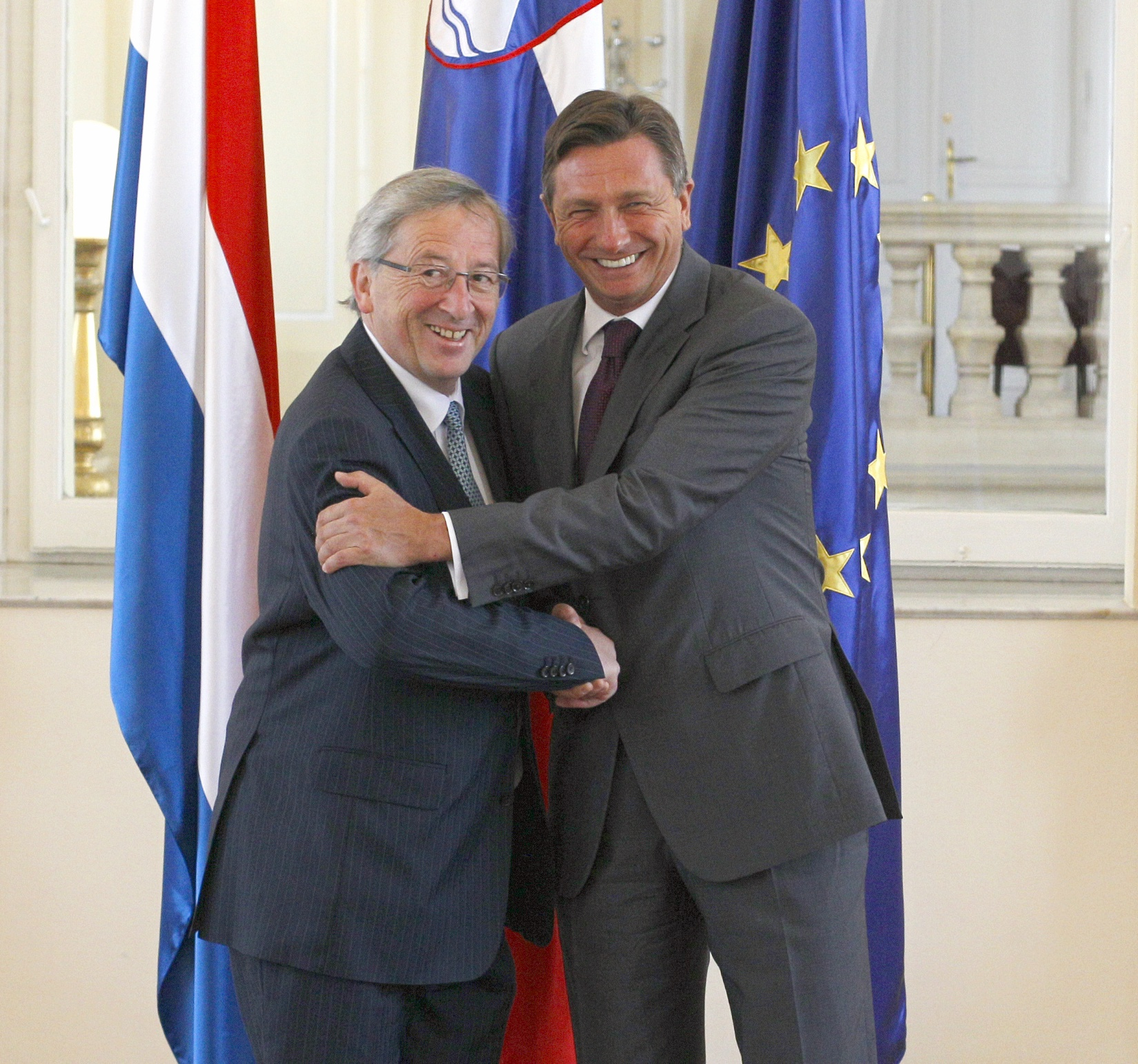 Borut Pahor and Jean-Claude Juncker in 2010